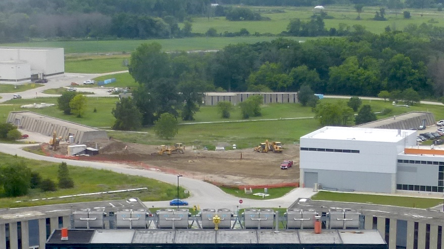 Antiproton accumulator at Femilab